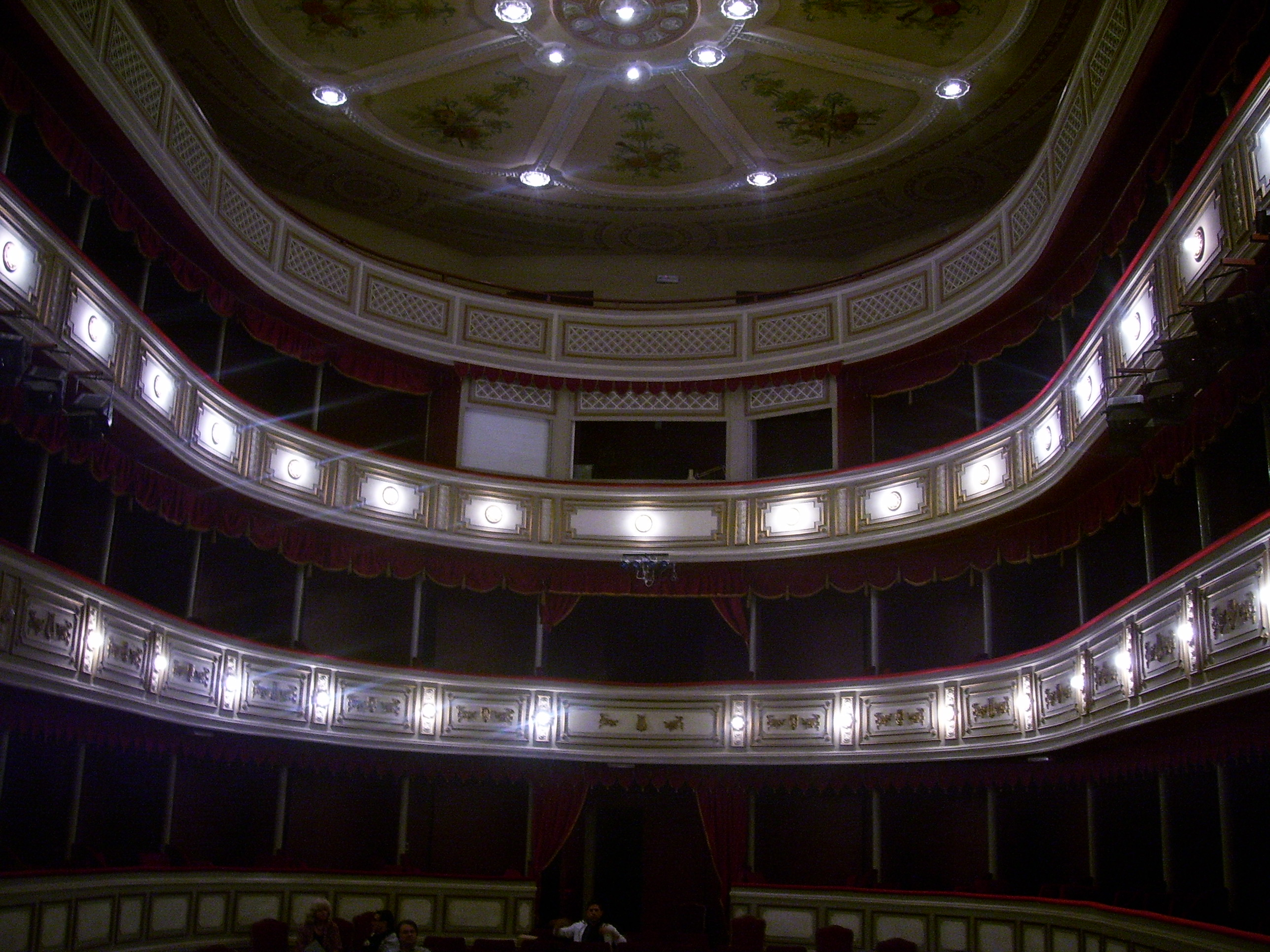 National theatre "Toša Jovanović", Zrenjanin, Serbia. Oldest stage in Serbia. (1836)